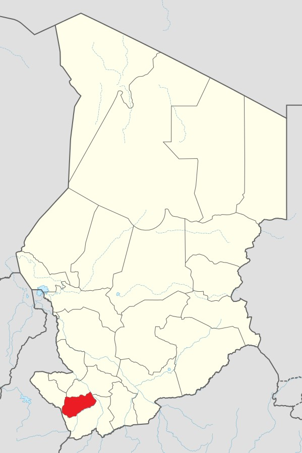 Map of Logone Occidental Region